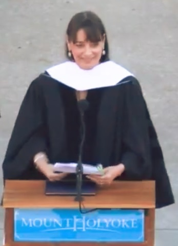 American education strategist Deborah Bial receiving an honorary Doctor of Humane Letters from Mount Holyoke College